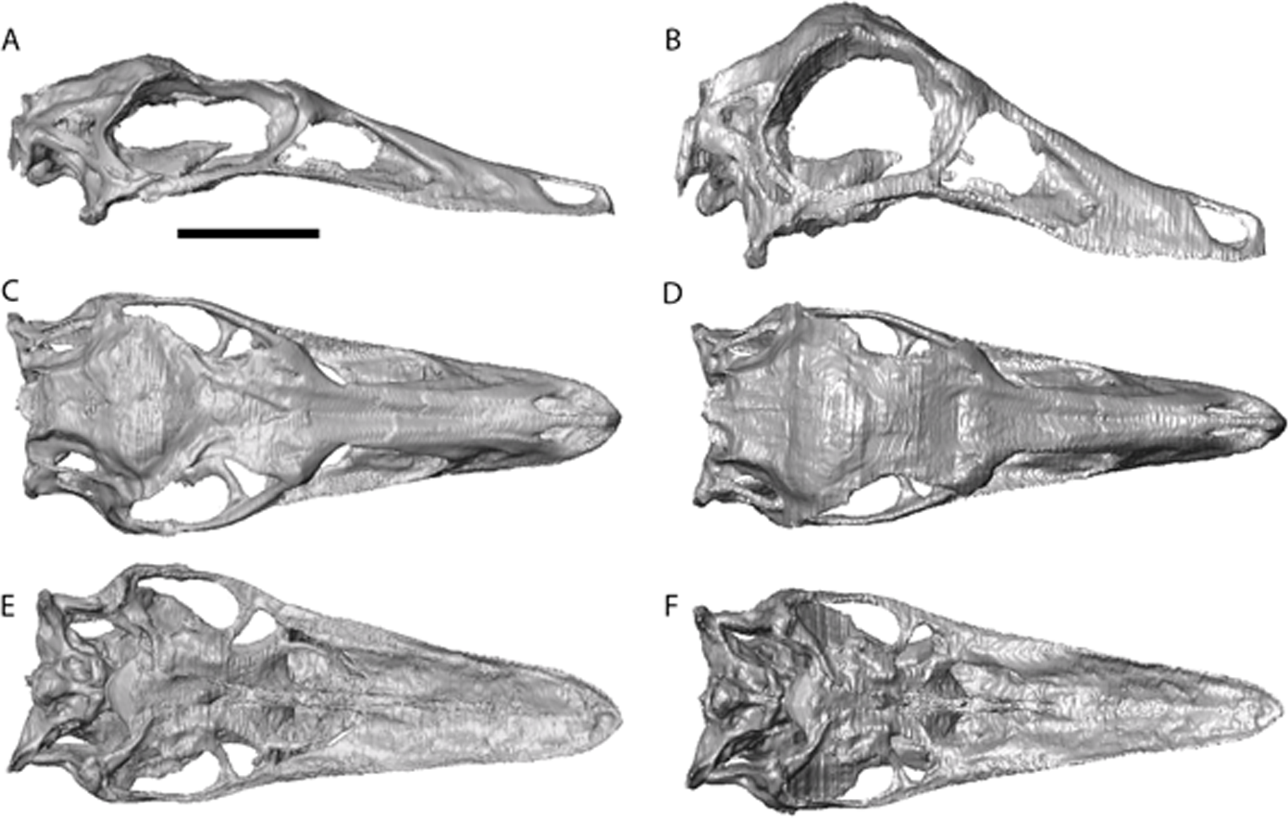 Struthiomimus altus reconstruction (RTMP 1990.026.0001). Note the dorsoventral expansion of the skull after retrodeformation, particularly of the orbital region. (A), (C), (E), original skull, (B), (D), (F), retrodeformed skulls. (A),(B), right lateral; (C), (D) dorsal; (E), (F), ventral views. Scale bar = 5 cm. See Videos S3 and S4 showing video of the skull before and after retrodeformation.